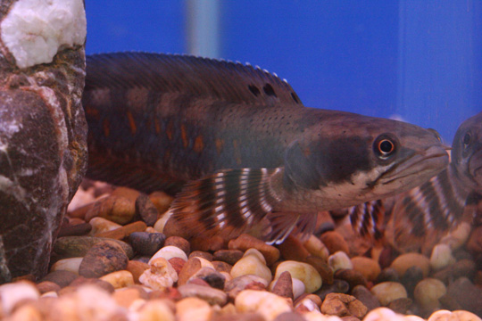 A red-spotted snakehead fish (Thai: ปลาช่อนพม่าจุดแดง) or Channa pulchra at the 20th Pramong Nomklao fish show event at the Future Park Rangsit, Thailand, in July 2008. Picture taken by myself.